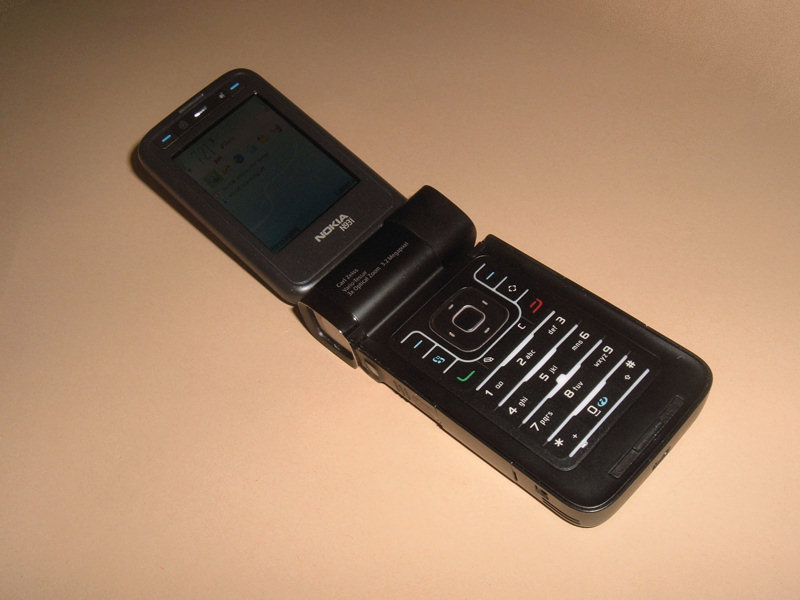 The Nokia N93i in its open position